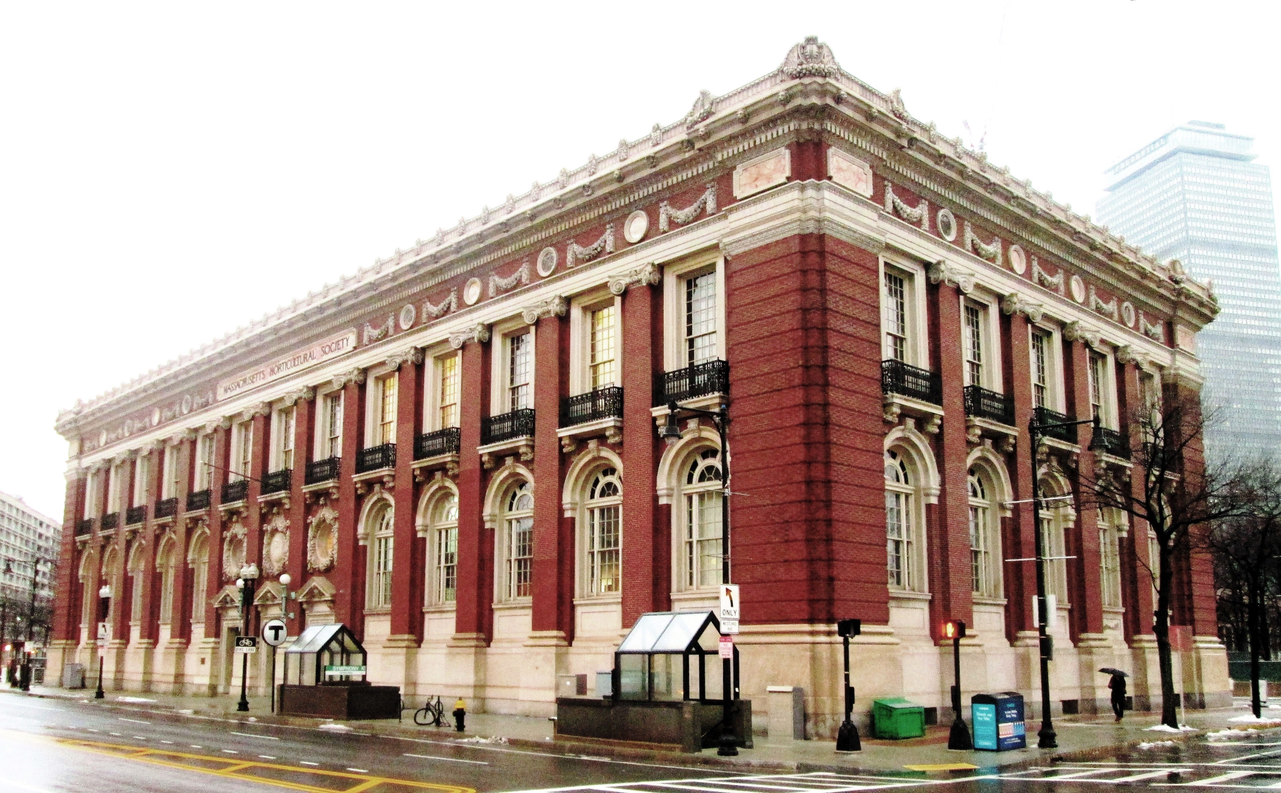 Horticultural Hall of the Massachusetts Horticultural Society, located at 300 Massachusetts Avenue at Huntington Avenue, was built in 1901 and was designed by Edmund March Wheelwright of the firm of Wheelwright and Haven. It is listed on the National Register of Historic Places. (Source: AIA Guide to Boston (2nd ed.)) The Prudential Center is on the right in the background.